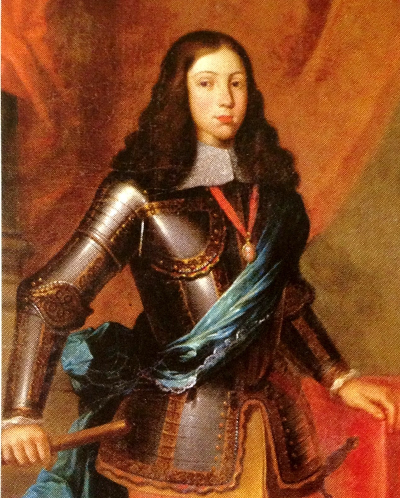 no paco dos duques em V V